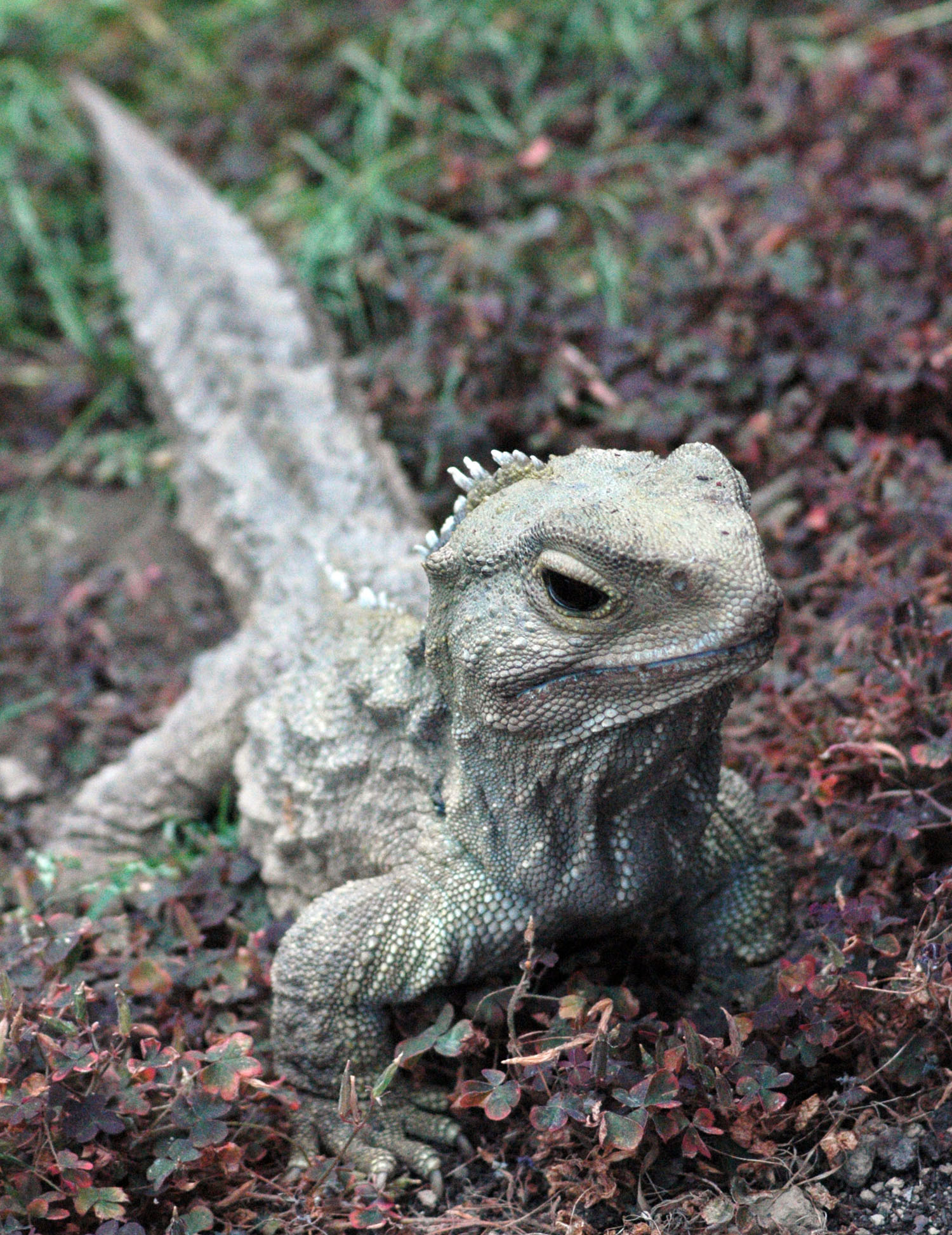 Henry, the world's oldest Tuatara in captivity at Invercargill, New Zealand